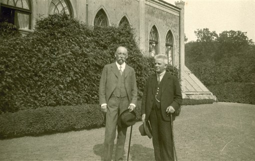 Carl Nielsen and Einar Cordt Trap (1859-1937) on the lawn in front of Damgaard, where the second movement of his Symphony no. 3 was composed. Cordt Trap was the brother of Charlotte Trap de Thygeson, who owned Damgaard.